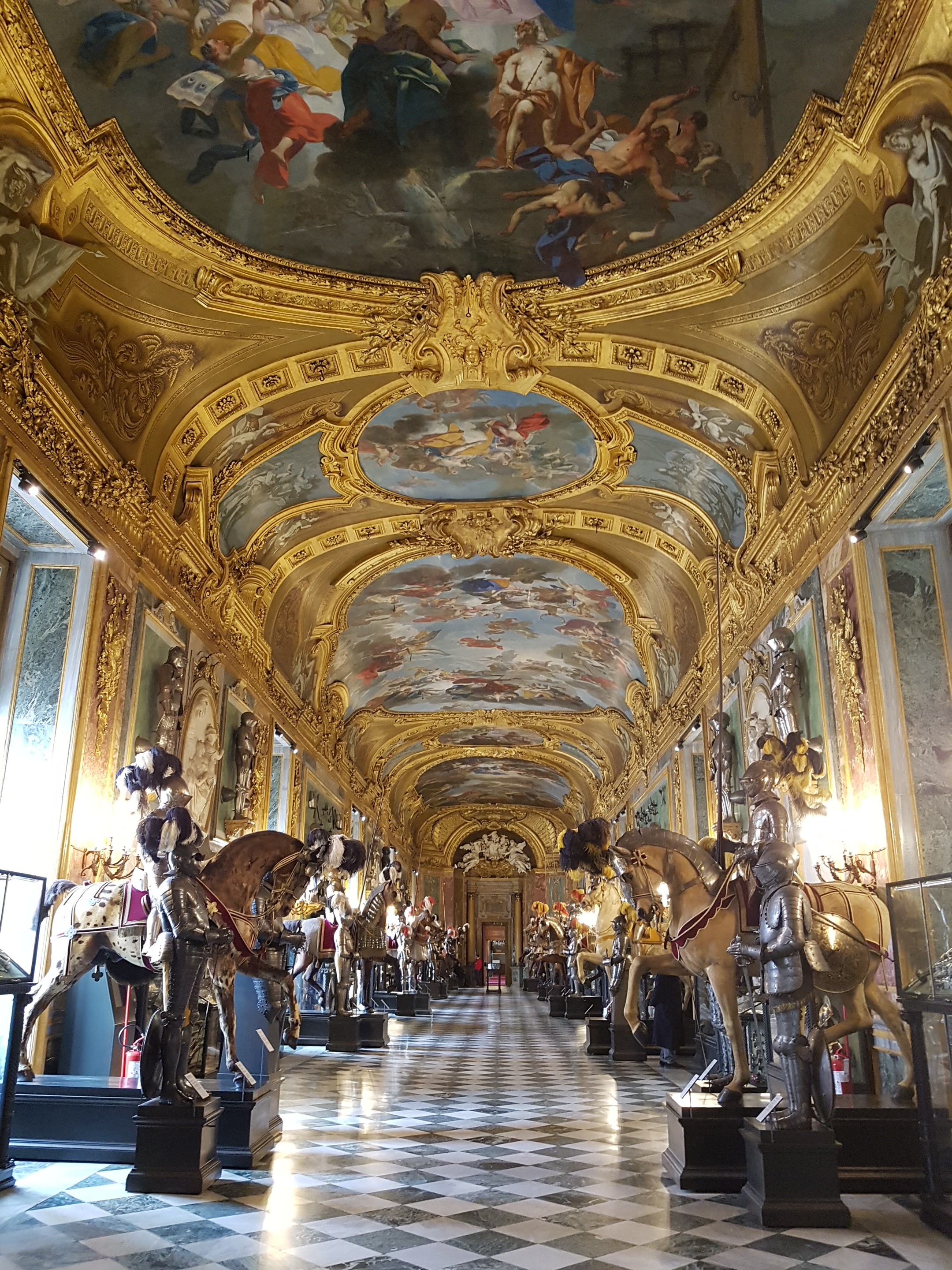 Royal Armoury, Turin, Northern Italy